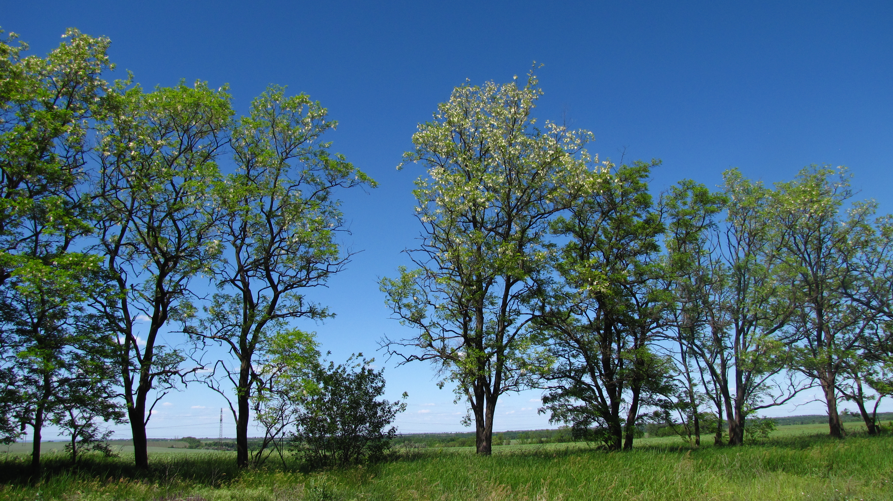 Robinia pseudoacacia, commonly known in its native territory as black locust; Dnipropetrovsk Oblast, Ukraine